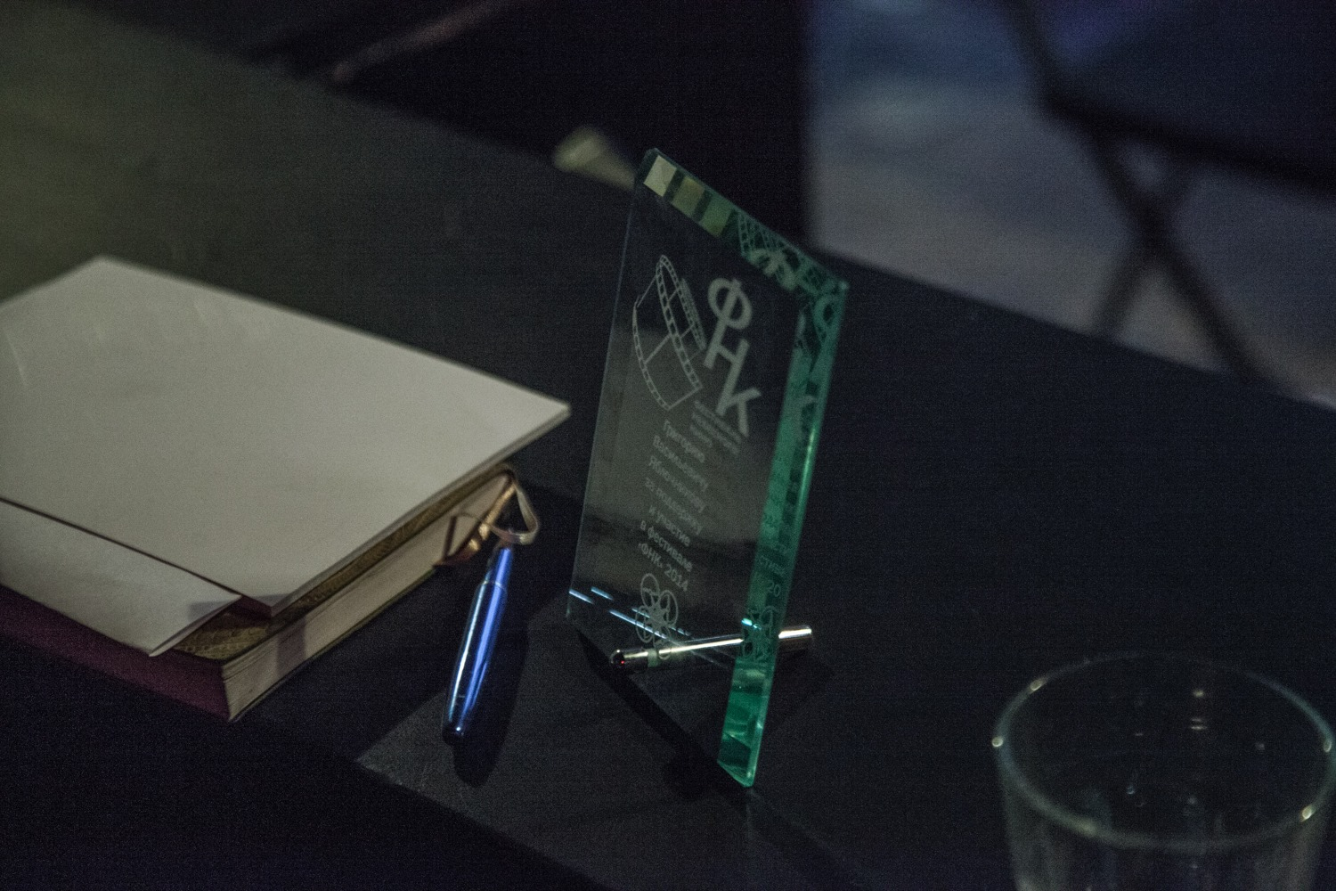 award of festival sky cinema